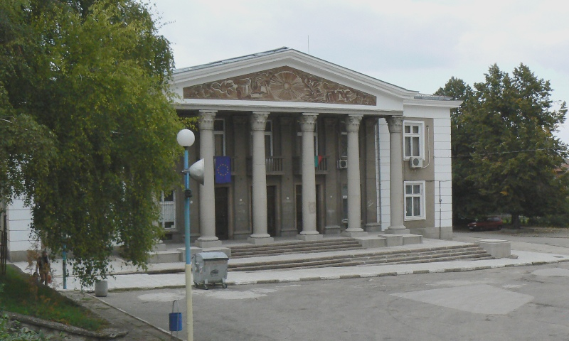 Community centre of village Brestovitsa, Bulgaria